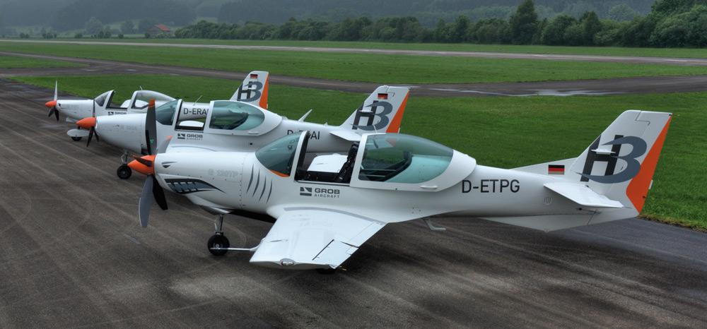 Grob Aircraft Fleet, D-ETPG (G120-TP), D-ESAI (G120a), D-ERAF (G115c) (right to left)